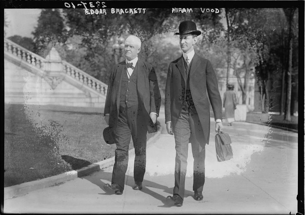 Edgar Brackett and Hiram Vood (LOC) Bain News Service,, publisher. Edgar Truman Brackett and Hiram R. Wood circa 1913 [between ca. 1910 and ca. 1915] 1 negative : glass ; 5 x 7 in. or smaller. Notes: Title from data provided by the Bain News Service on the negative. Photo shows Senator Edgar Truman Brackett (1853-1924) of New York and possibly Hiram R. Wood a New York Democrat. (Source: Flickr Commons project, 2010) Forms part of: George Grantham Bain Collection (Library of Congress). Format: Glass negatives. Repository: Library of Congress, Prints and Photographs Division, Washington, D.C. 20540 USA, General information about the Bain Collection is available at Persistent URL: Call Number: LC-B2- 2837-10